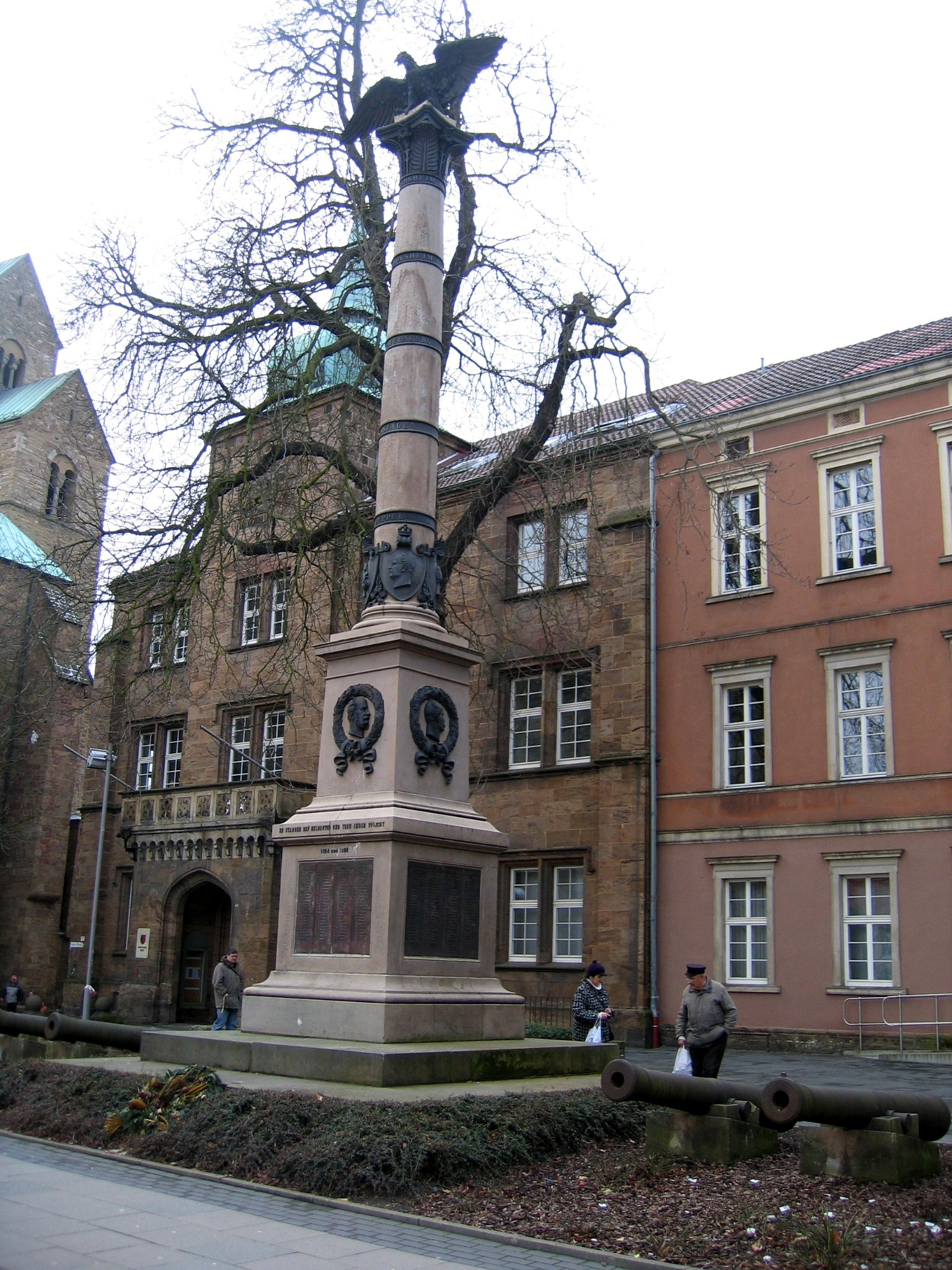 War memorial in front of Alte Regierung in Minden, Minden-Lübbecke, North Rhine-Westphalia, Germany.